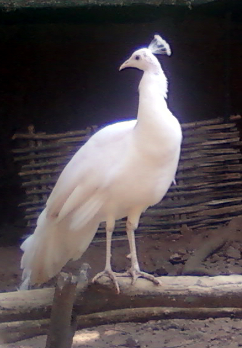 leucistic Pavo cristatus Pea Fowl at Indira Gandhi Zoological Park, Visakhapatnam